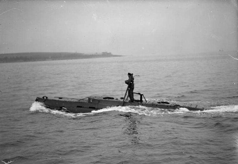 The Royal Navy during the Second World Wat X-Craft 25 underway in Loch Striven, near Rothesay with Lieut J E Smart, RNVR, the Commanding Officer on deck by the conning tower.